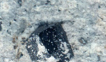 Amphibole from locality from Dolné Breziny, Štiavnické vrchy Mts., Western Carpathians, Slovakia.